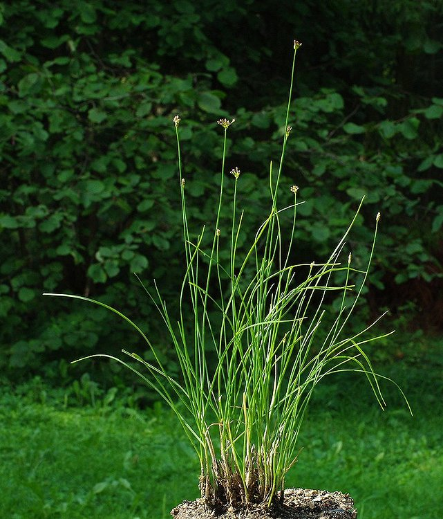 Allium gunibicum Miscz. ex Grossh. from Gunib plateau